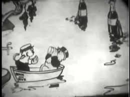 A scene from the Judge Rummy short A Joy Ride which was released between 1920 and 1922. While some sources (such as BCDB) say it was released in 1920, others (such as IMDB) say 1922.